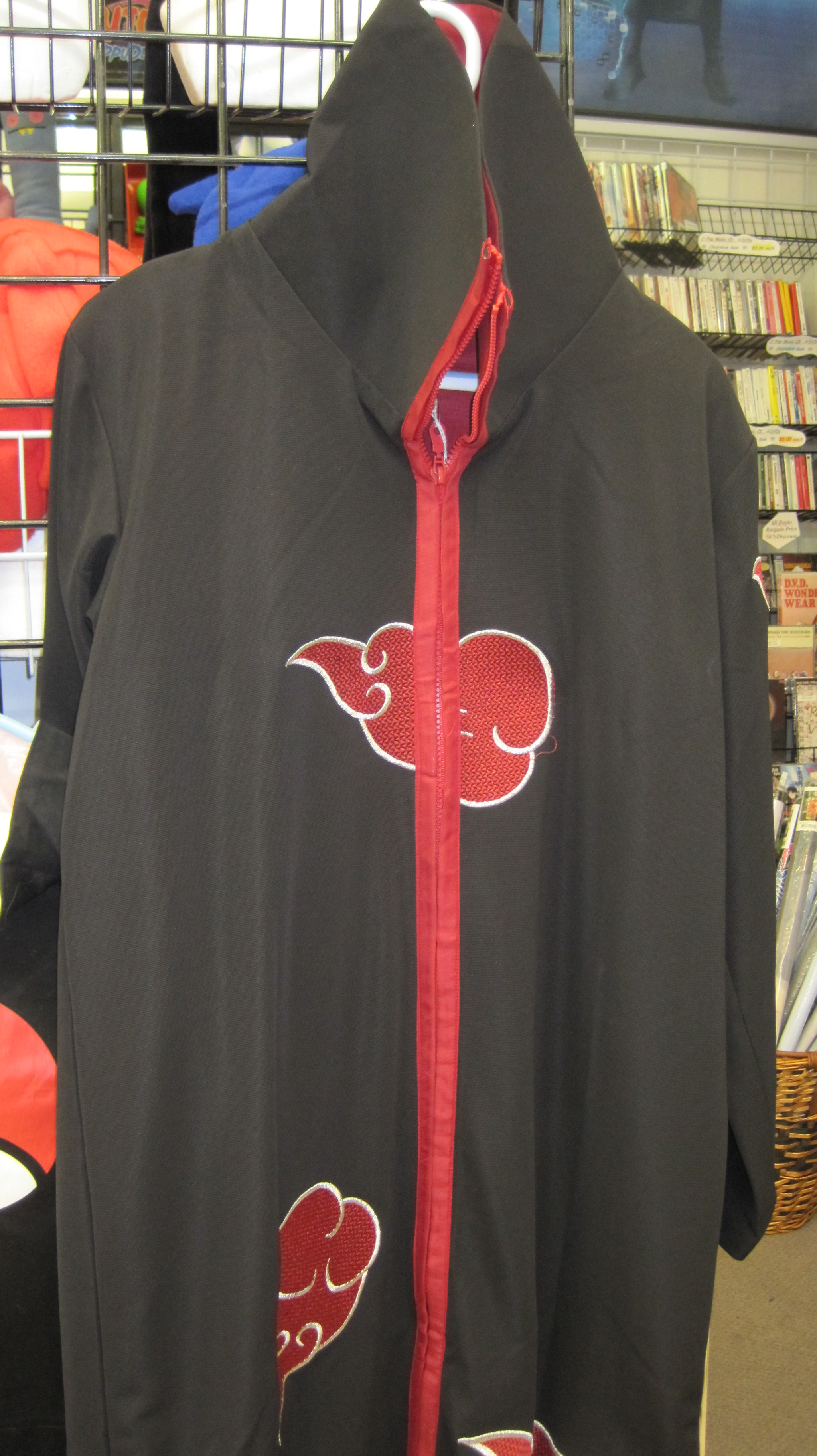 A Naruto Akatsuki robe for cosplay.